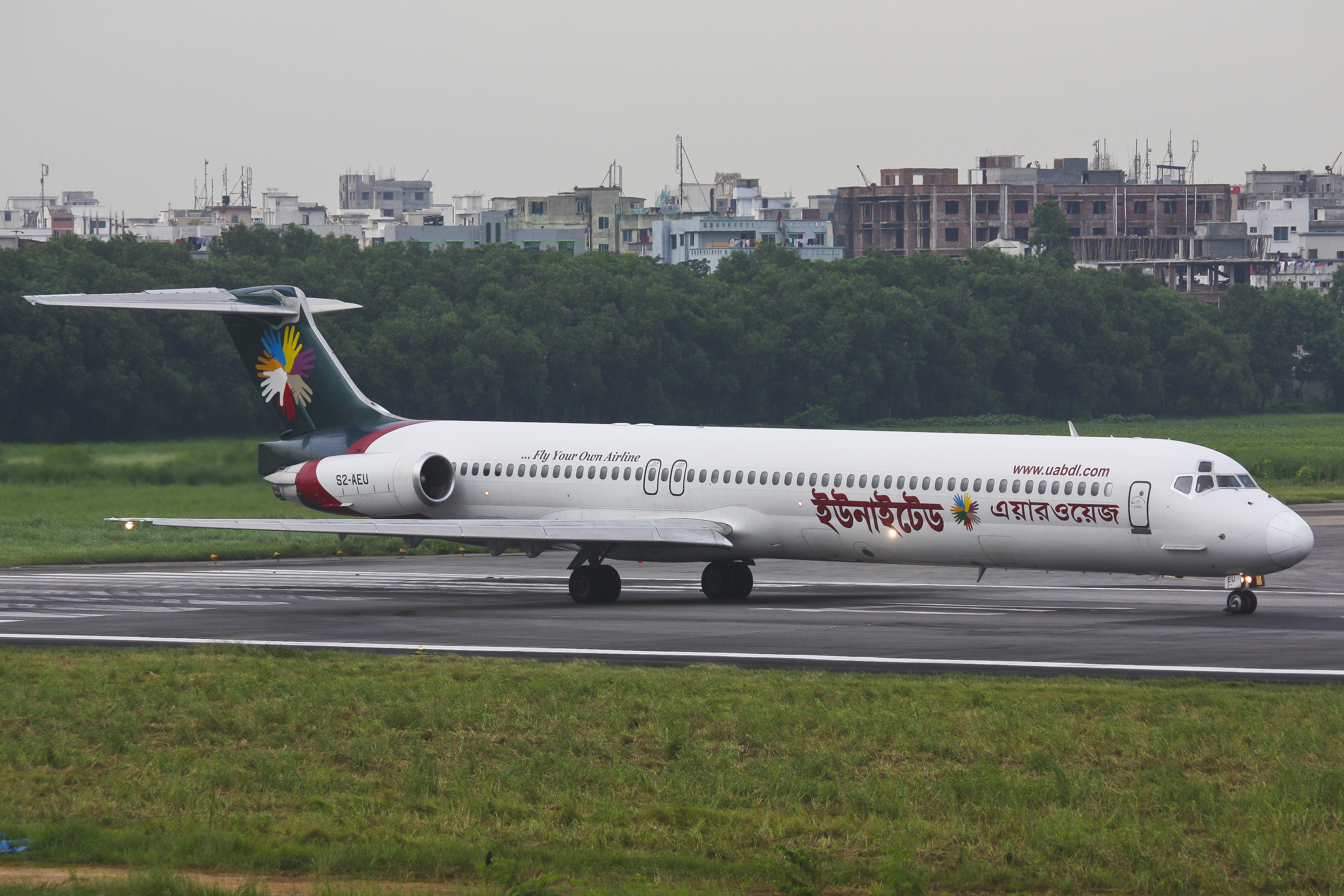 United Airways McDonnell Douglas MD-83 S2-AEU lined up for take off from runway 14 at Hazrat Shahjalal International Airport, Dhaka - VGHS / DAC